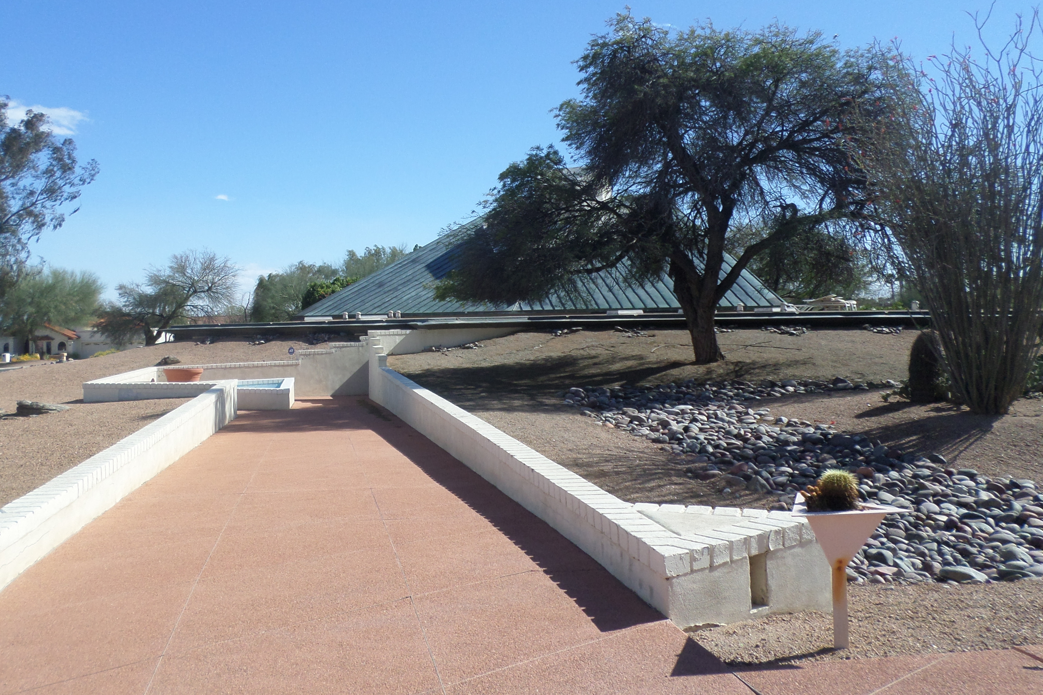 Model home built by Randall Presley, designed by Frank Lloyd Wright Foundation, computer-controlled with microprocessors from Motorola